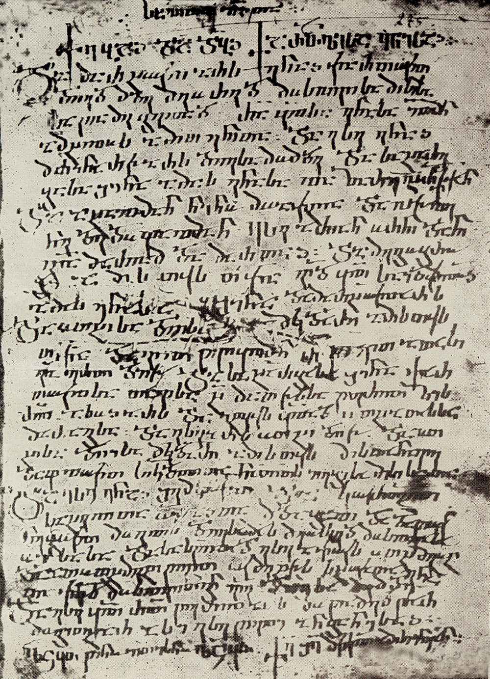 A manuscript by Ioane-Zosime, a Georgian scribe and religious writer